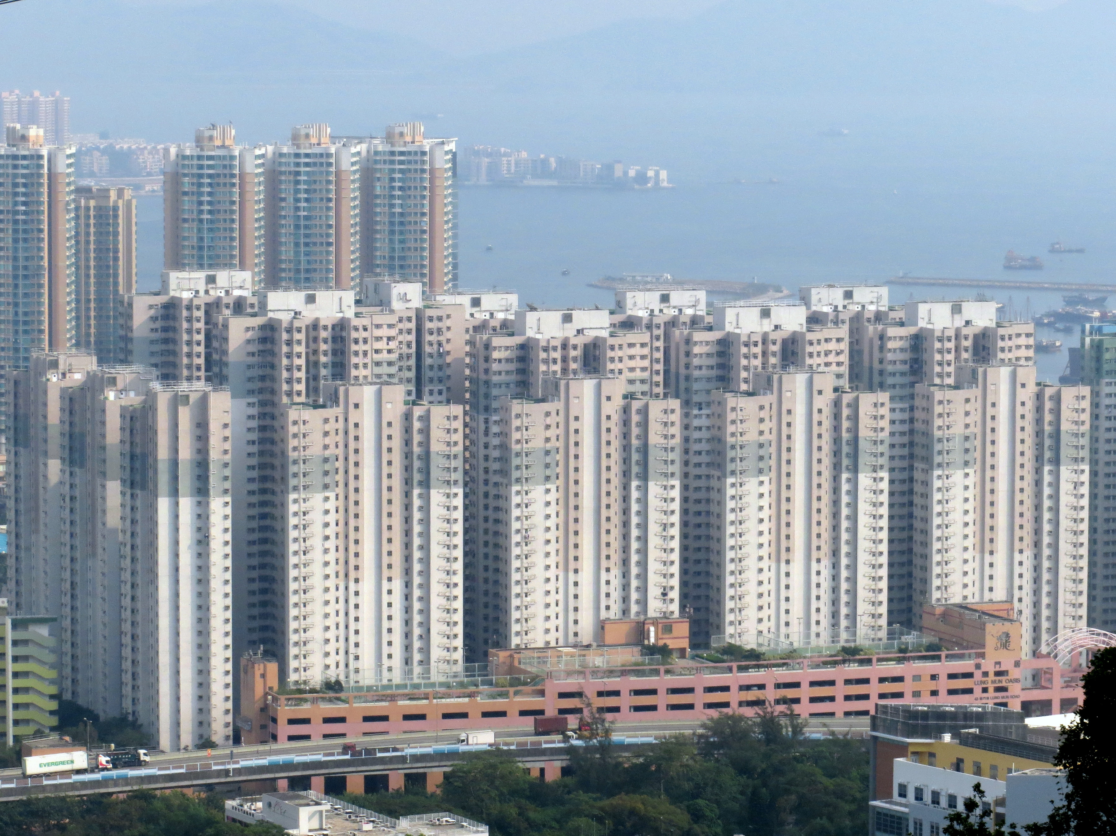 Lung Mun Oasis, Tuen Mun, New Territories, Hong Kong.